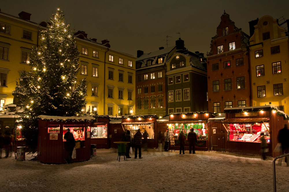 Traditional Christmas market in Stockholm Old Town, Sweden. Today it was quite cold outside (-10C) and snowy.